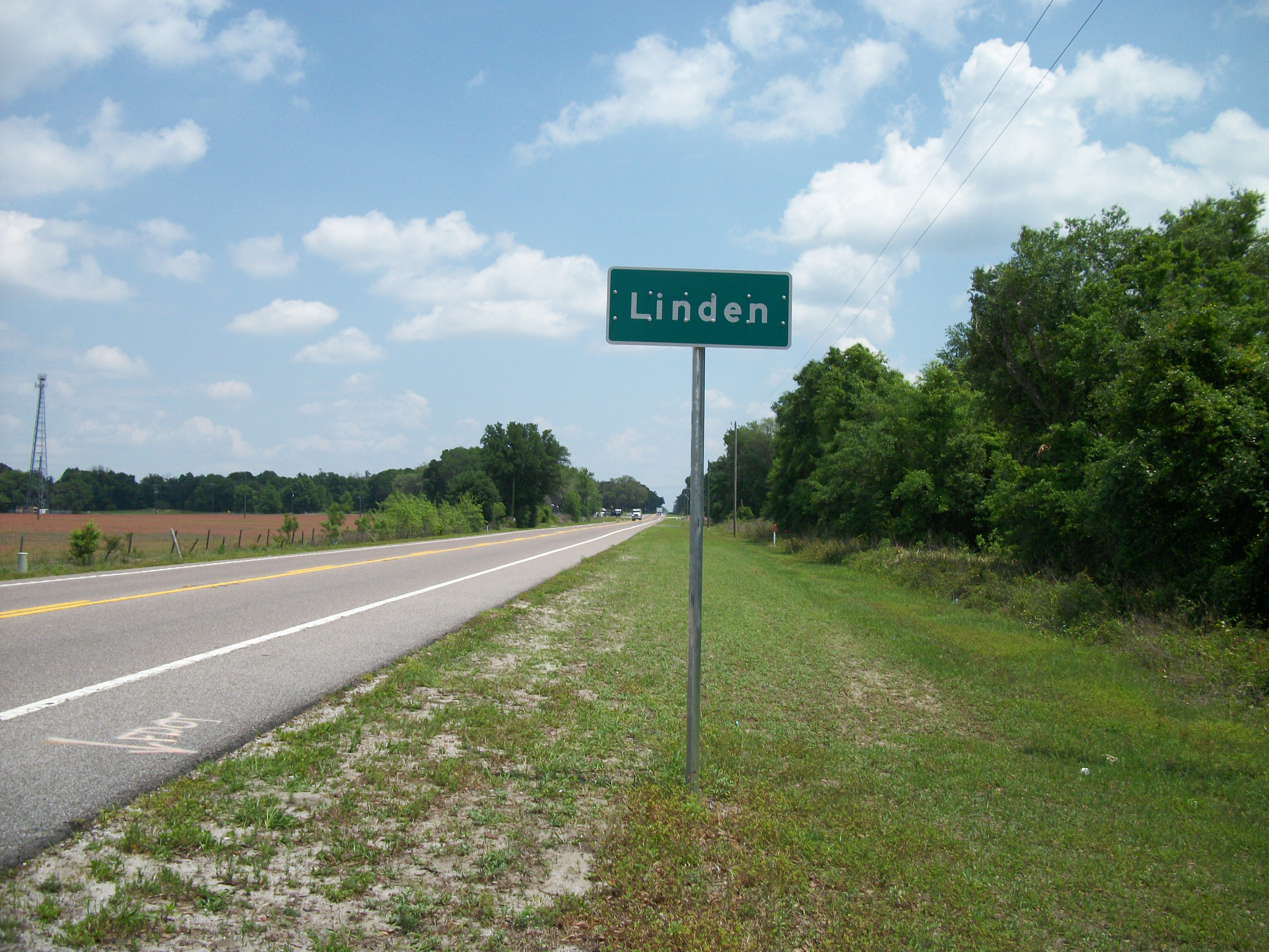 Eastbound sign on Florida State Road 50 as it enters the barley existent community of Linden in Sumter County, Florida.